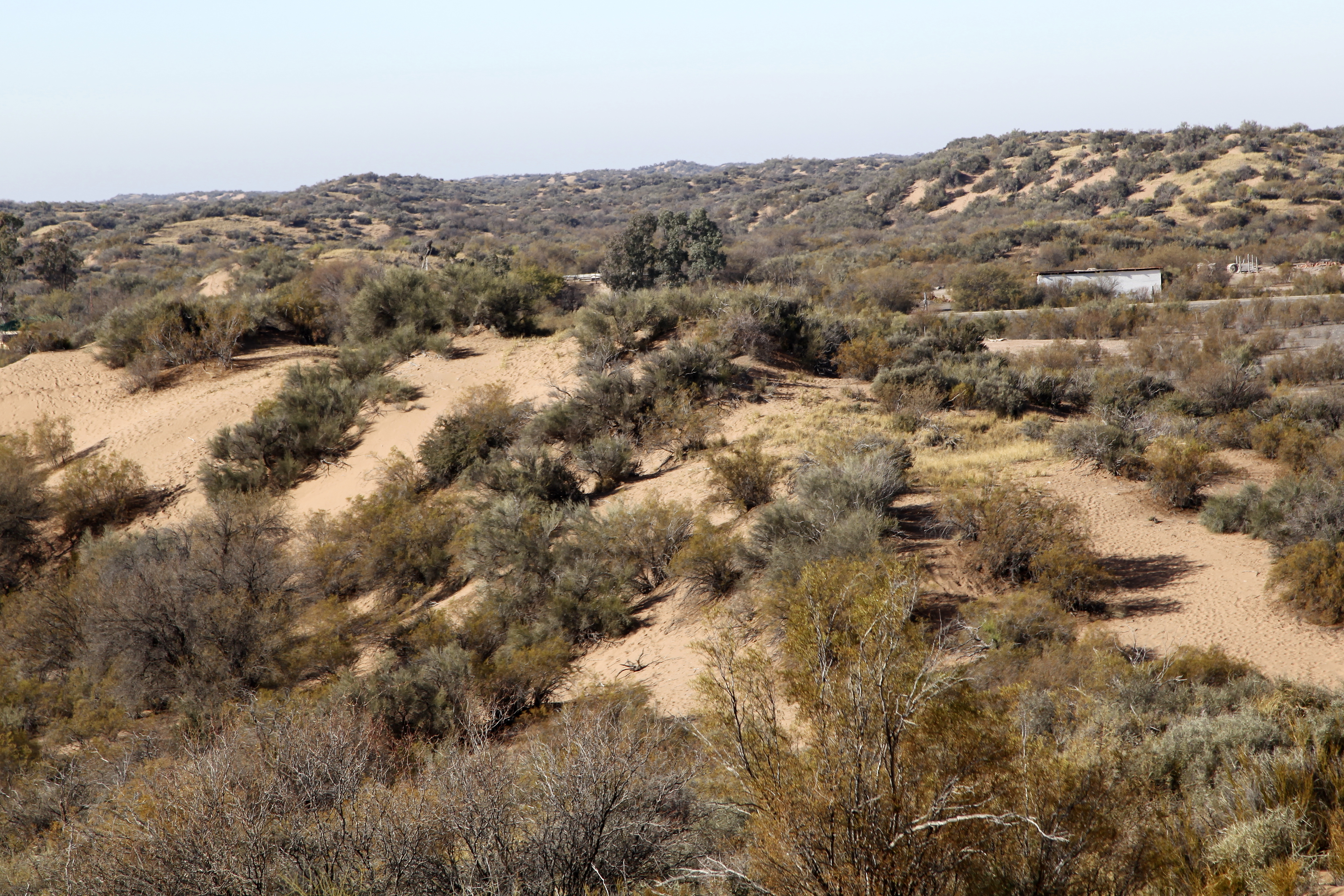 Bosque Telteca Natural Reserva; Mendoza, Argentina